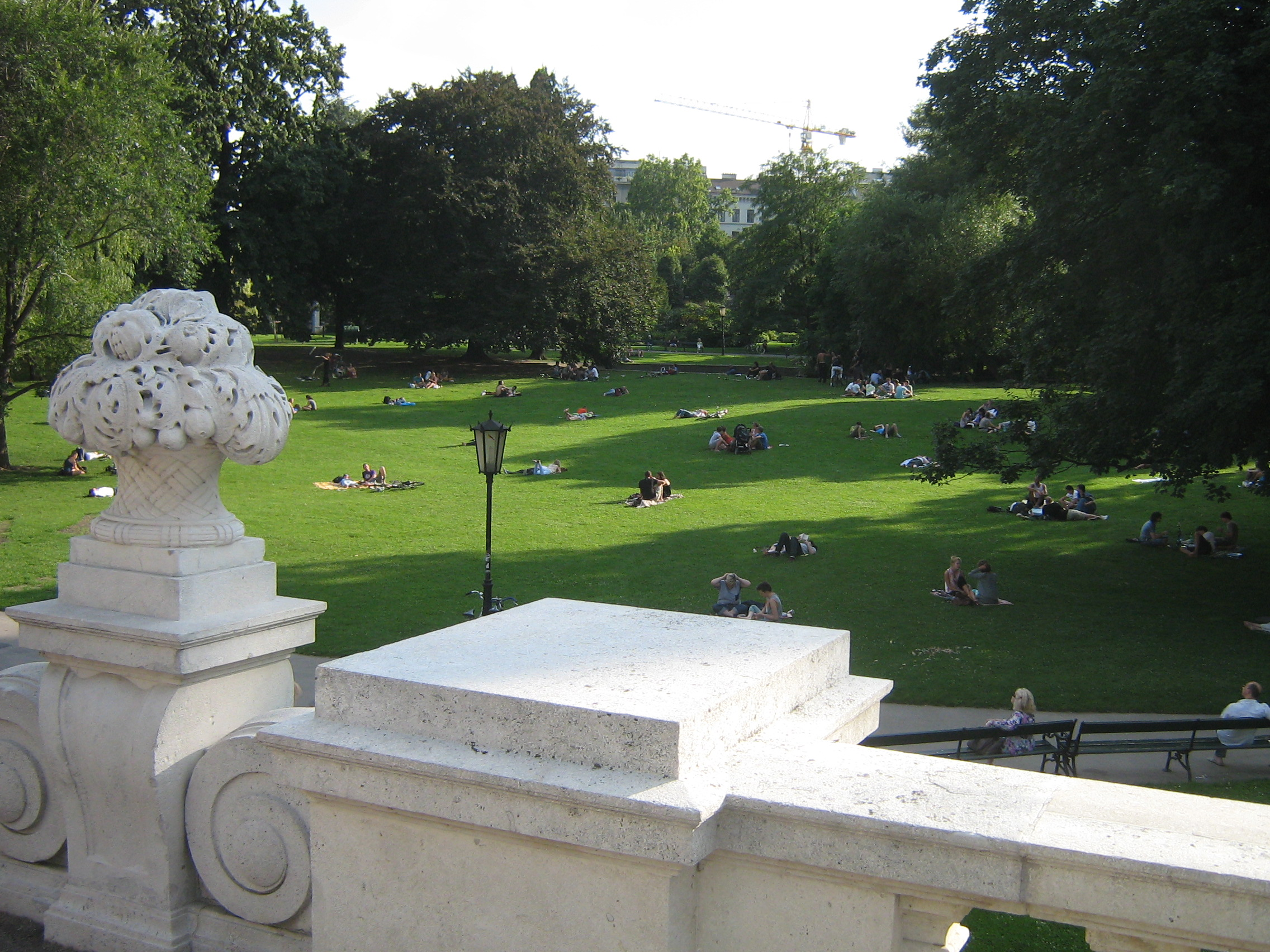 Austria, Vienna, Burggarten